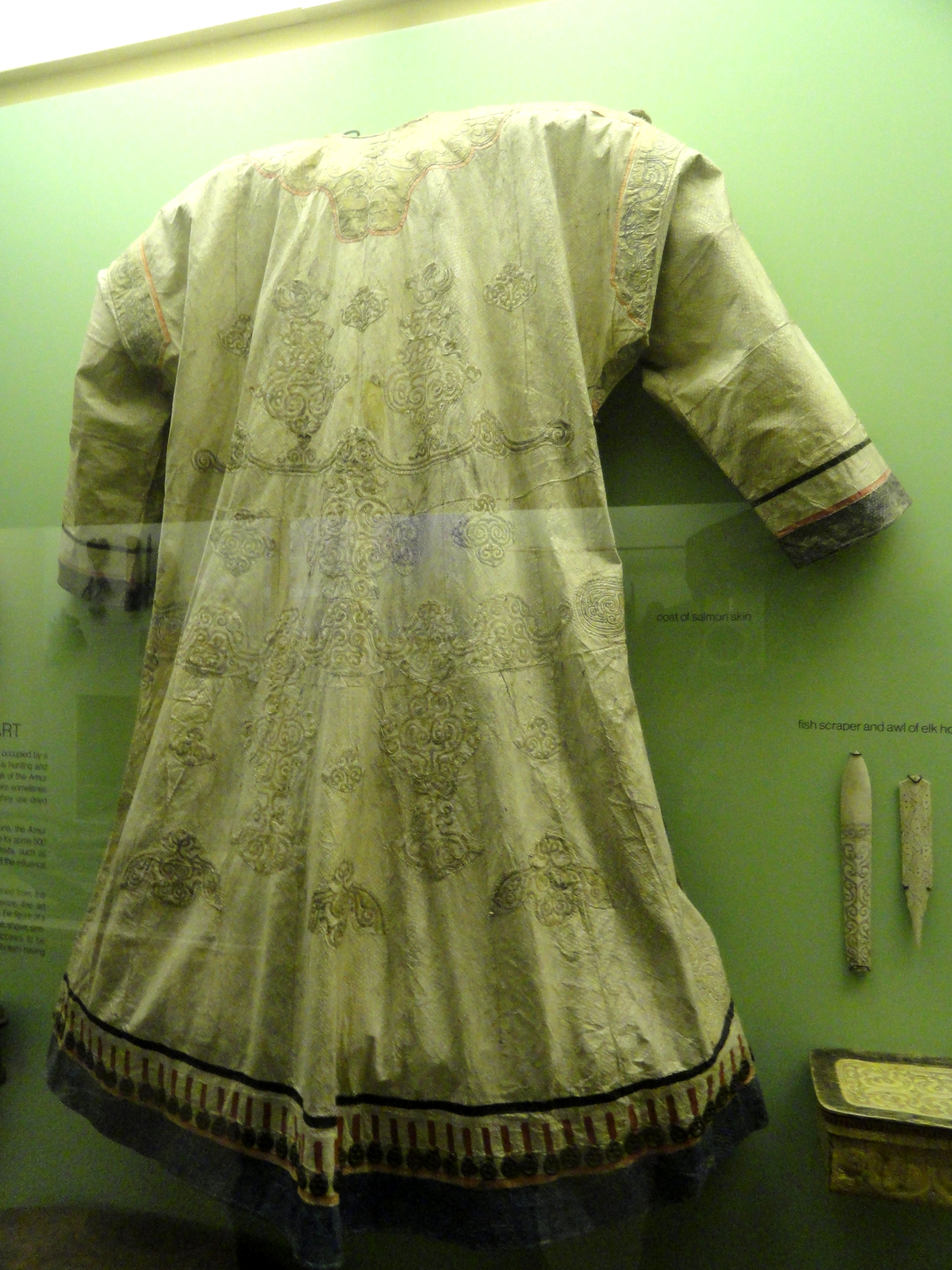 Exhibit in the Asian collection of the American Museum of Natural History, Manhattan, New York City, New York, USA.